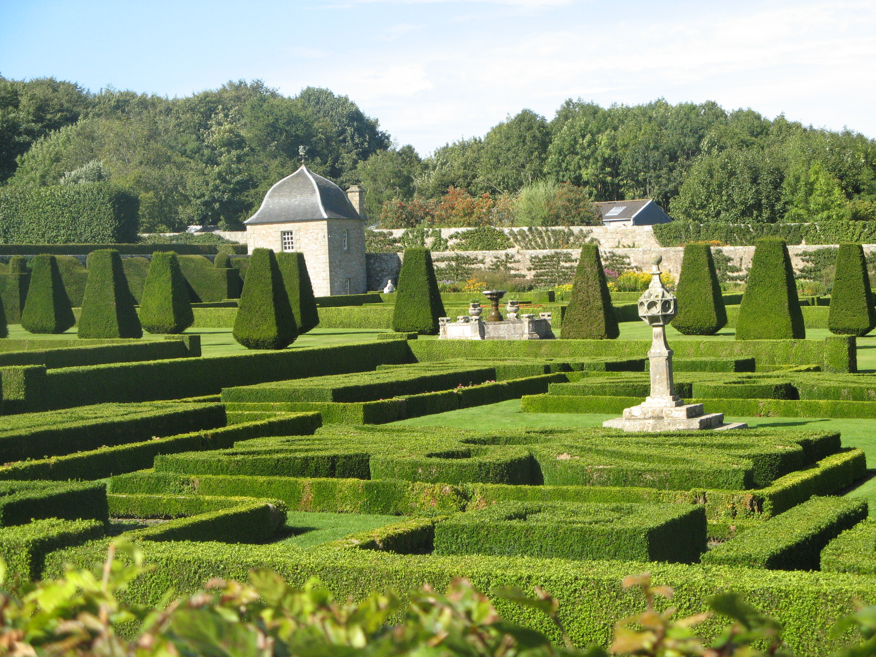 Pitmedden Great Garden, category A listed, all artefacts, walls and pavillions